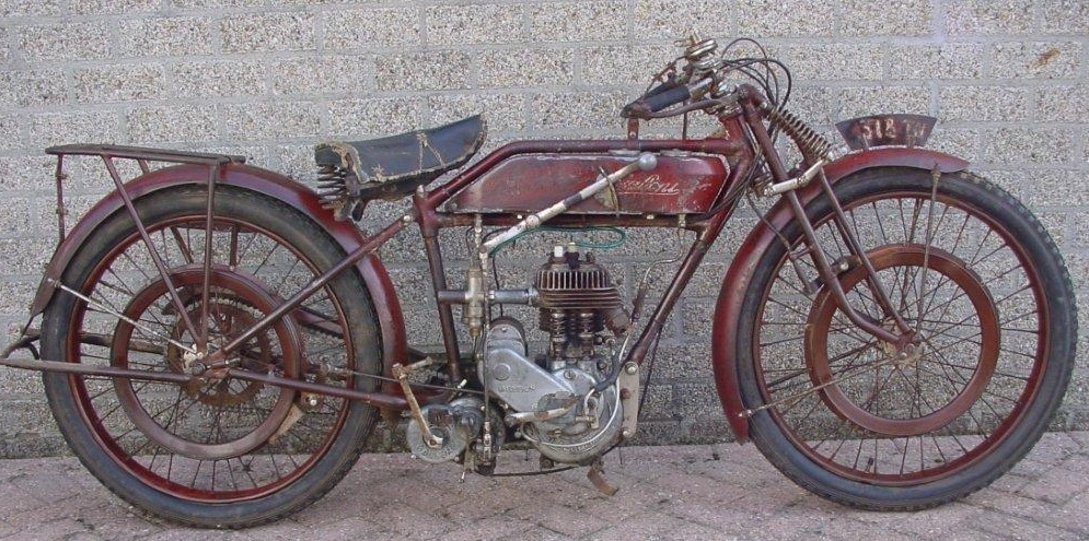 Galloni Giro D'Italia 350cc single cyclinder side valve motorcycle from 1924